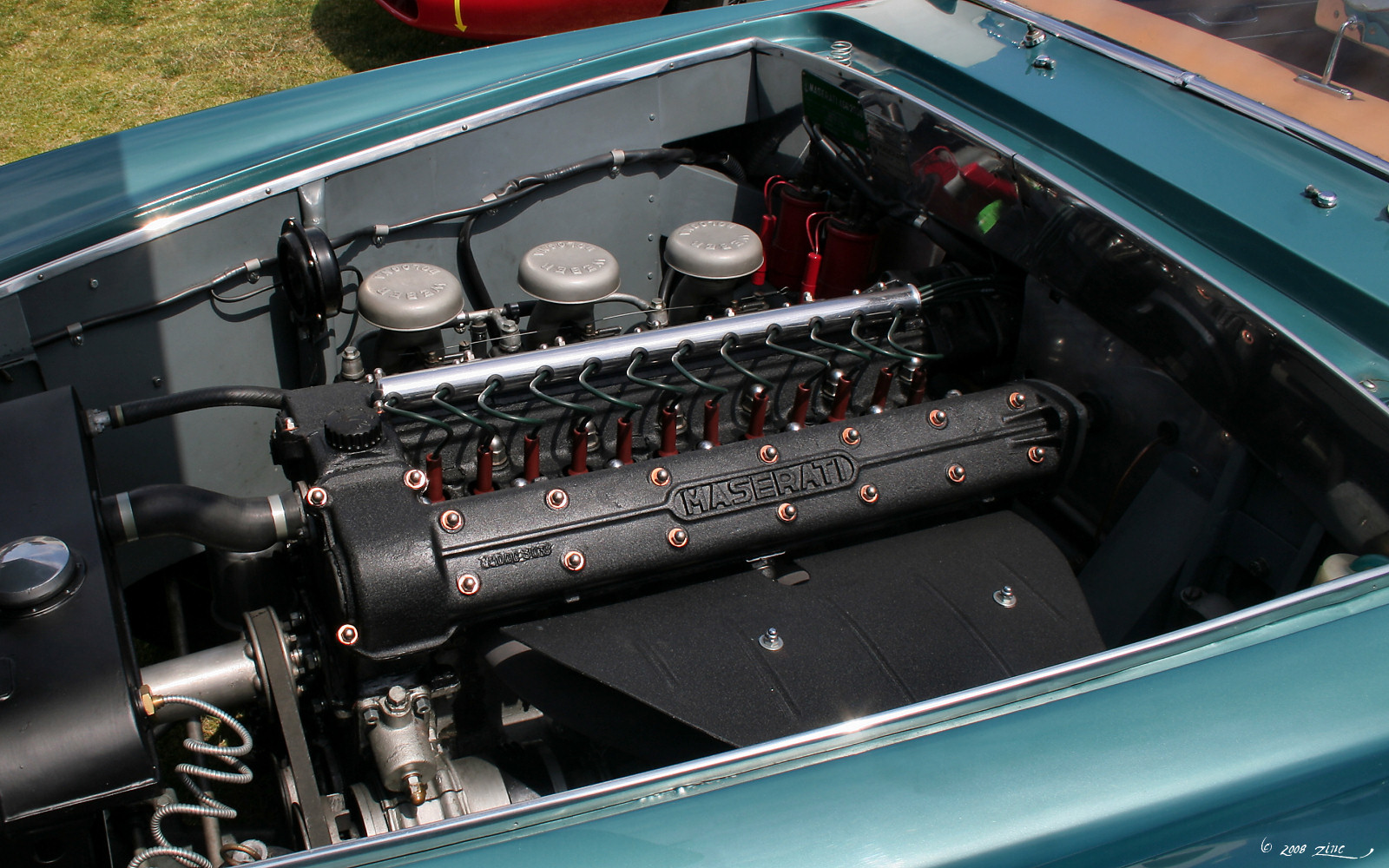 1956 Maserati A6G 2000 Allemano Coupe - eng 1956 Maserati A6G 2000 Allemano Coupé at 2008 Bella Italia car show, Spanish Landing park, San Diego.